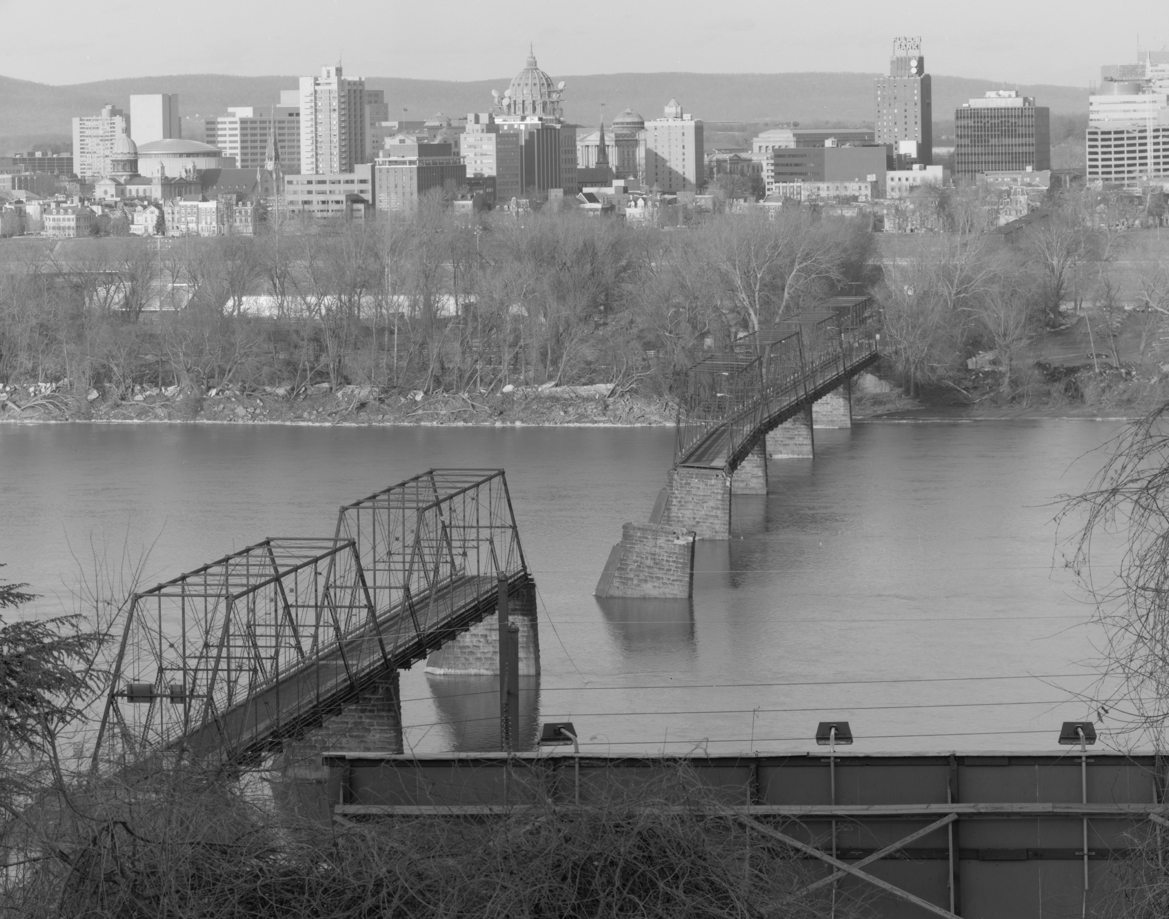 Aerial view of Harrisburg — in Dauphin County, Pennsylvania. With the damaged Walnut Street Bridge, partially spanning the Susquehanna River at Walnut Street. Image: HAER—Historic American Engineering Record images of Pennsylvania.